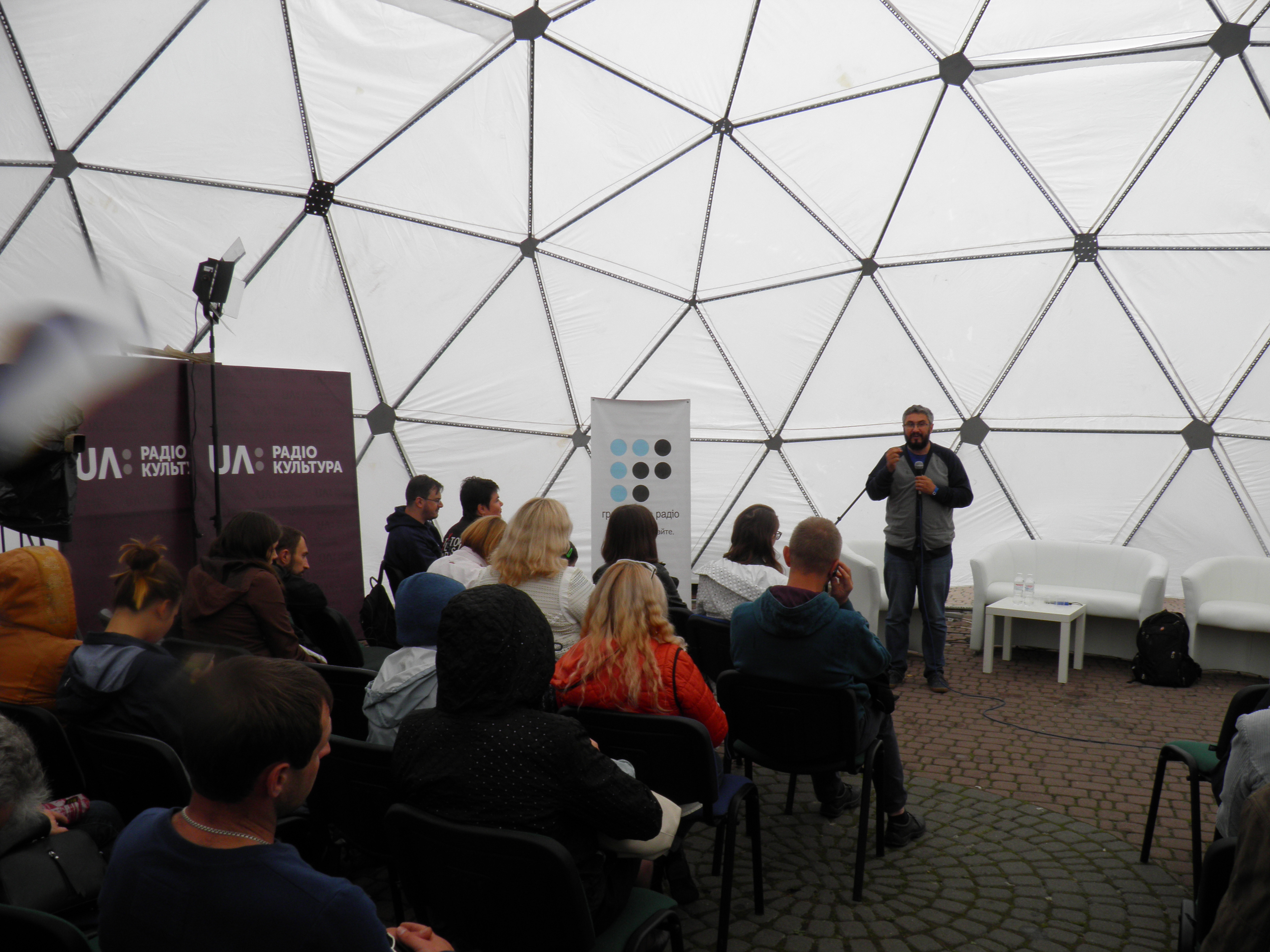 Publishers' Forum in Lviv 2018